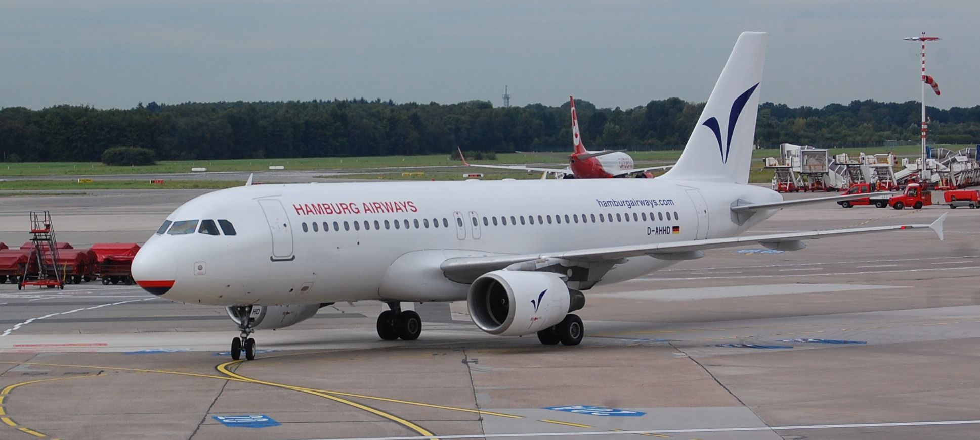 Hamburg Airways Airbus A320-214 D-AHHD taxis at Hamburg Airport, terminal 2